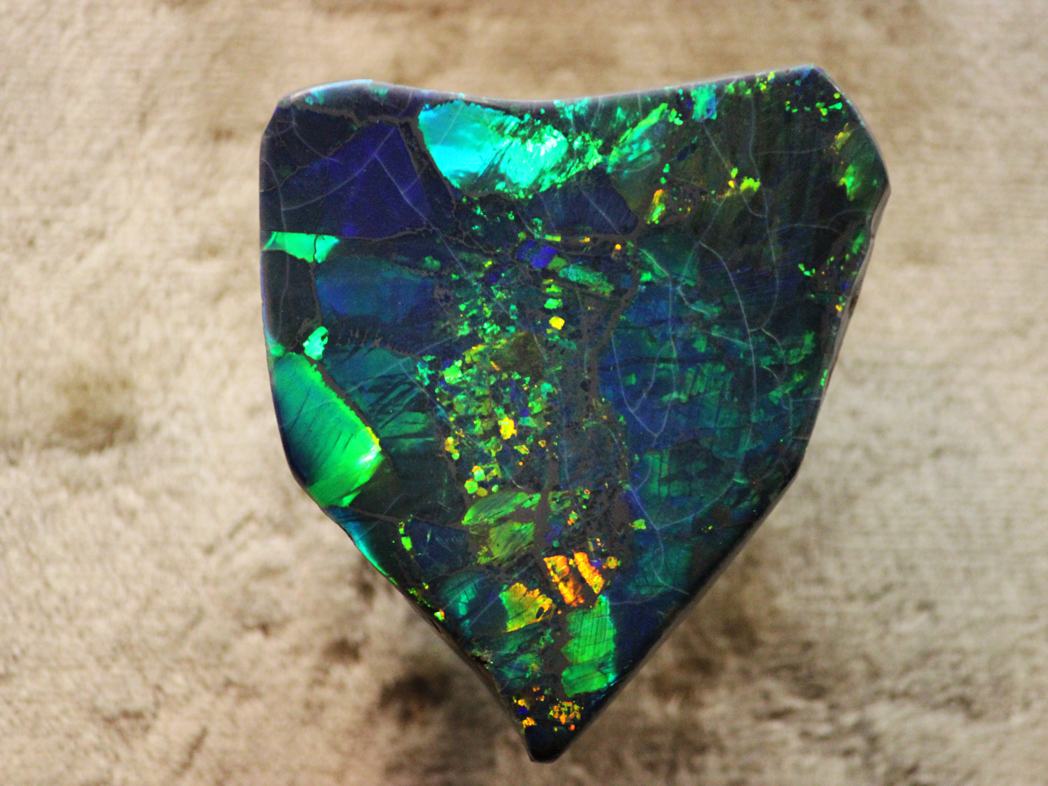 It is "Harlequin Prince Opal, 215.85 carats, Lightning Ridge (Australia) Black Opal.